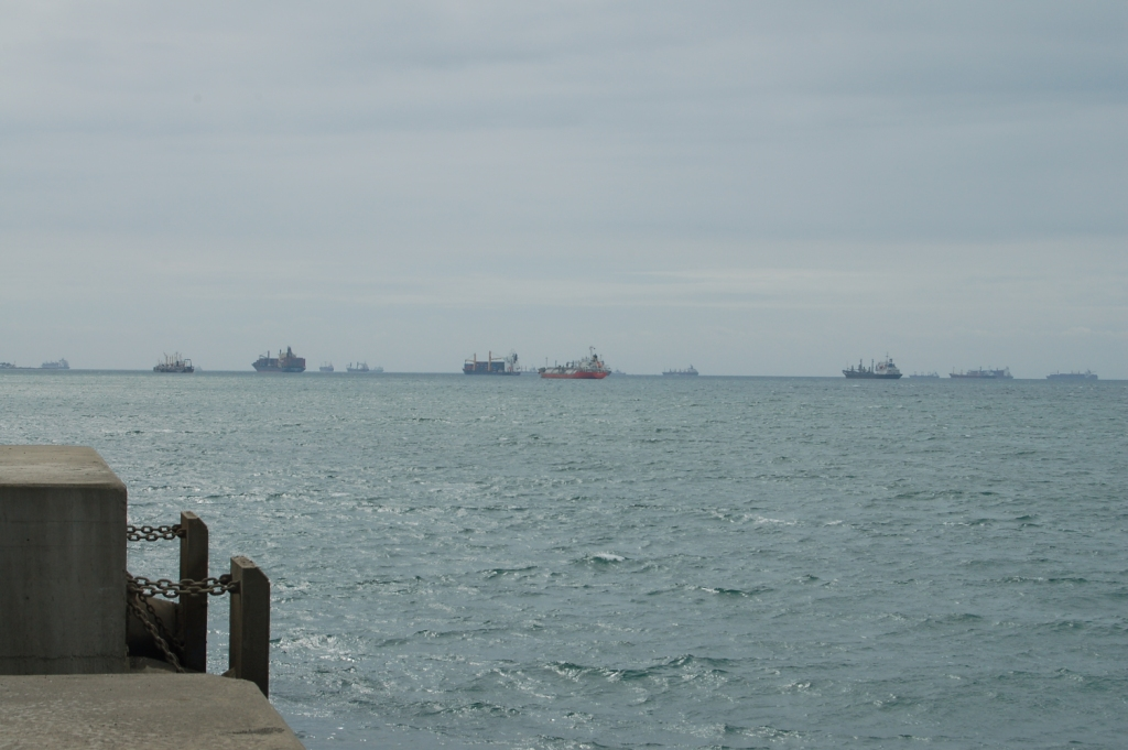 Containerships in front of the harbour of Luanda